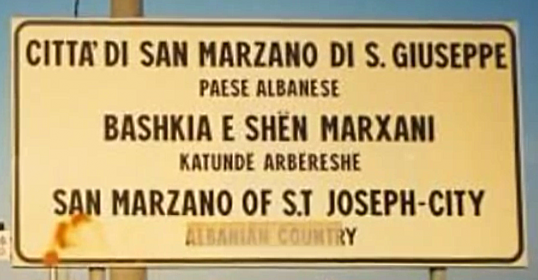 Trilingual square plate in San Marzano di San Giuseppe